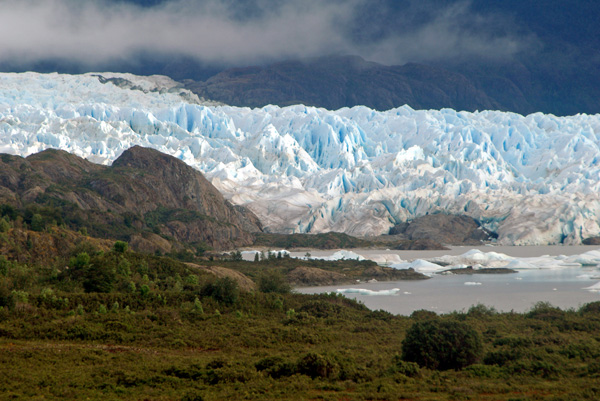 San Quintin Glacier - its main arm. Northern Patagonian Ice Field, Istmo Ofqui, Chile